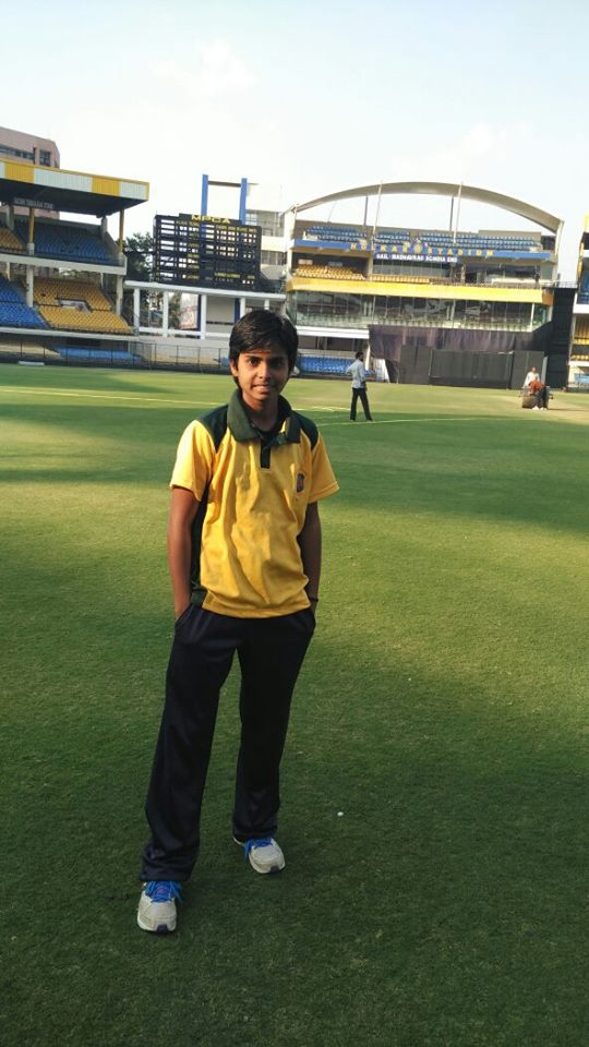 Indian First Class Player MCA